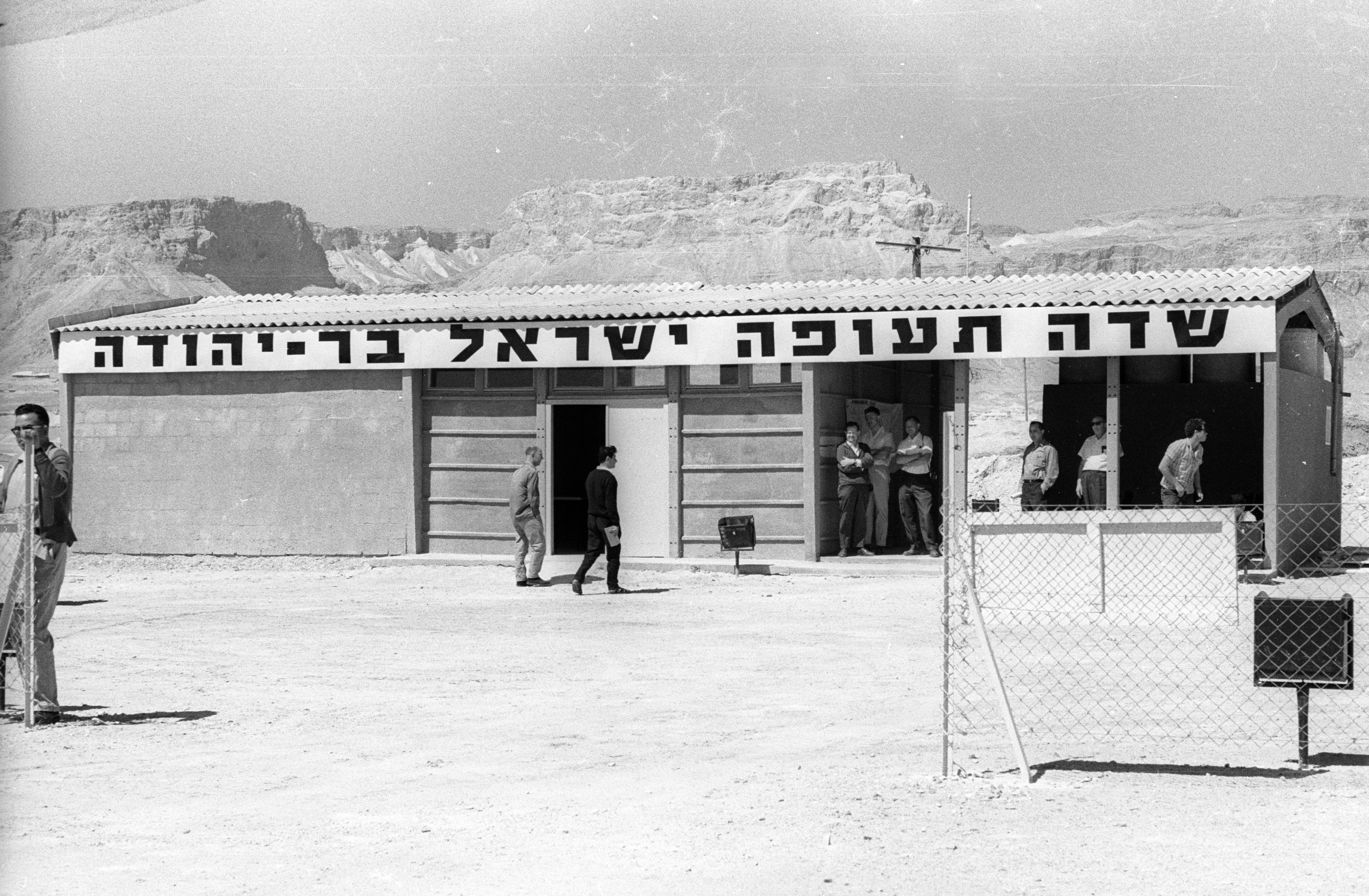 An airport in the Negev named after the late Israel Bar-Yehuda.